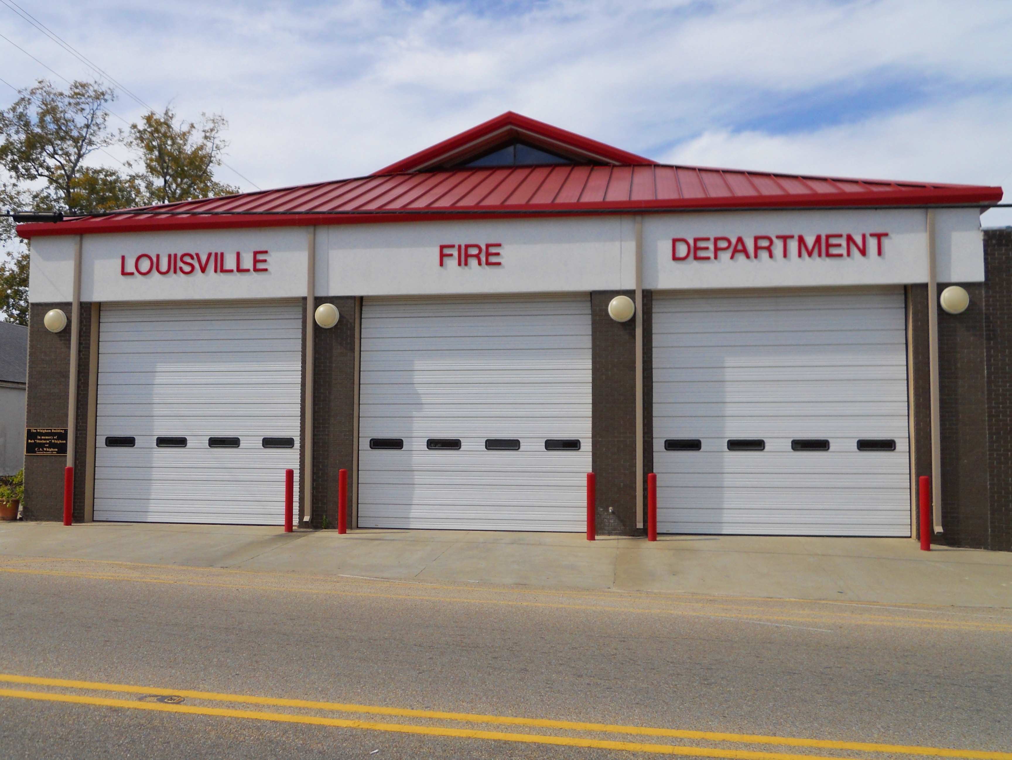 This is a photo of the Louisville, Alabama fire department.